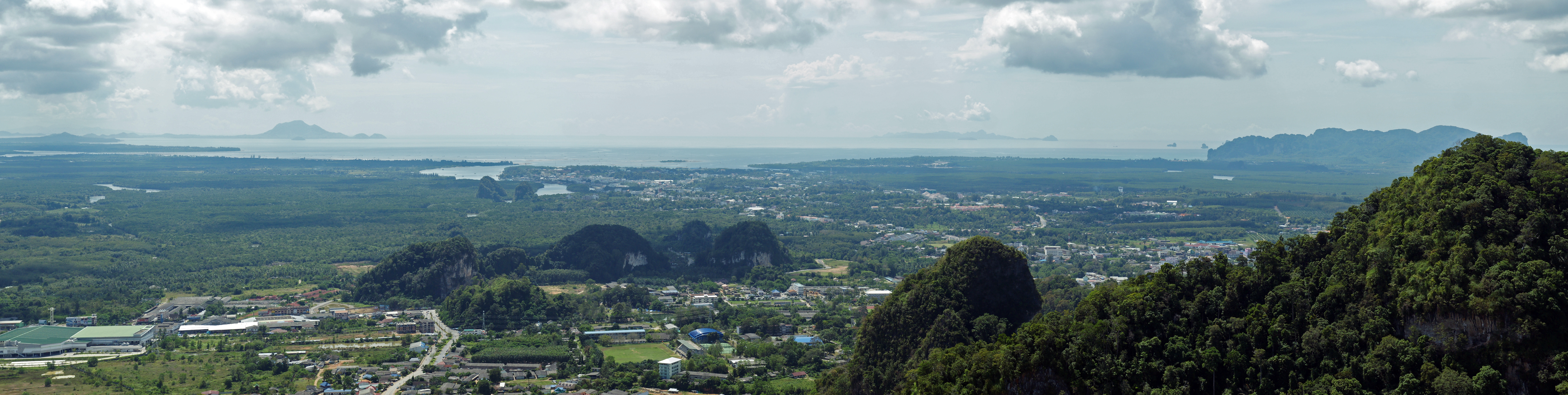 Panoramic view from Tiger Cave Temple, Krabi, Thailand.